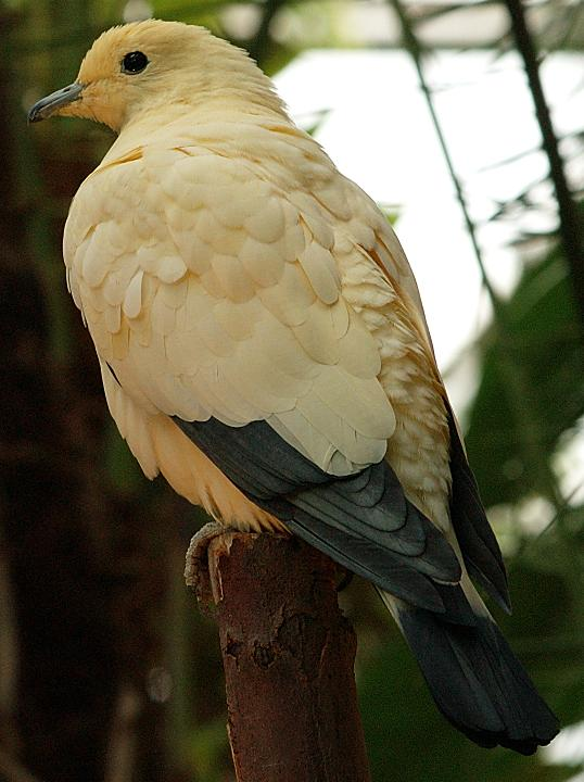 Pied Imperial Pigeon (Ducula bicolor)